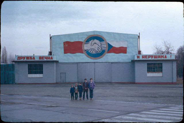 Tank hangar in Milovice (now Ostravská 626, Milovice, firm STAVMAT)